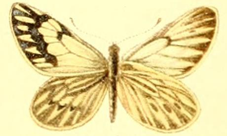 Plate from The Macrolepidoptera of the World. Vol. 5: Phulia nymphula